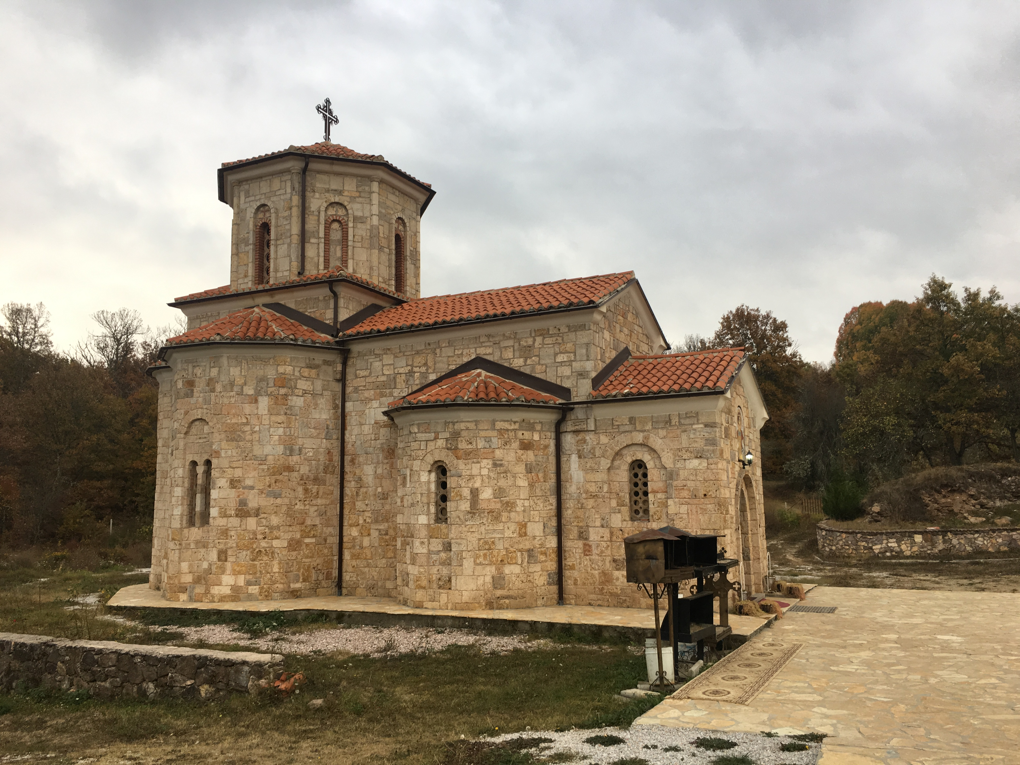 Wikiexpedition to Kopačka